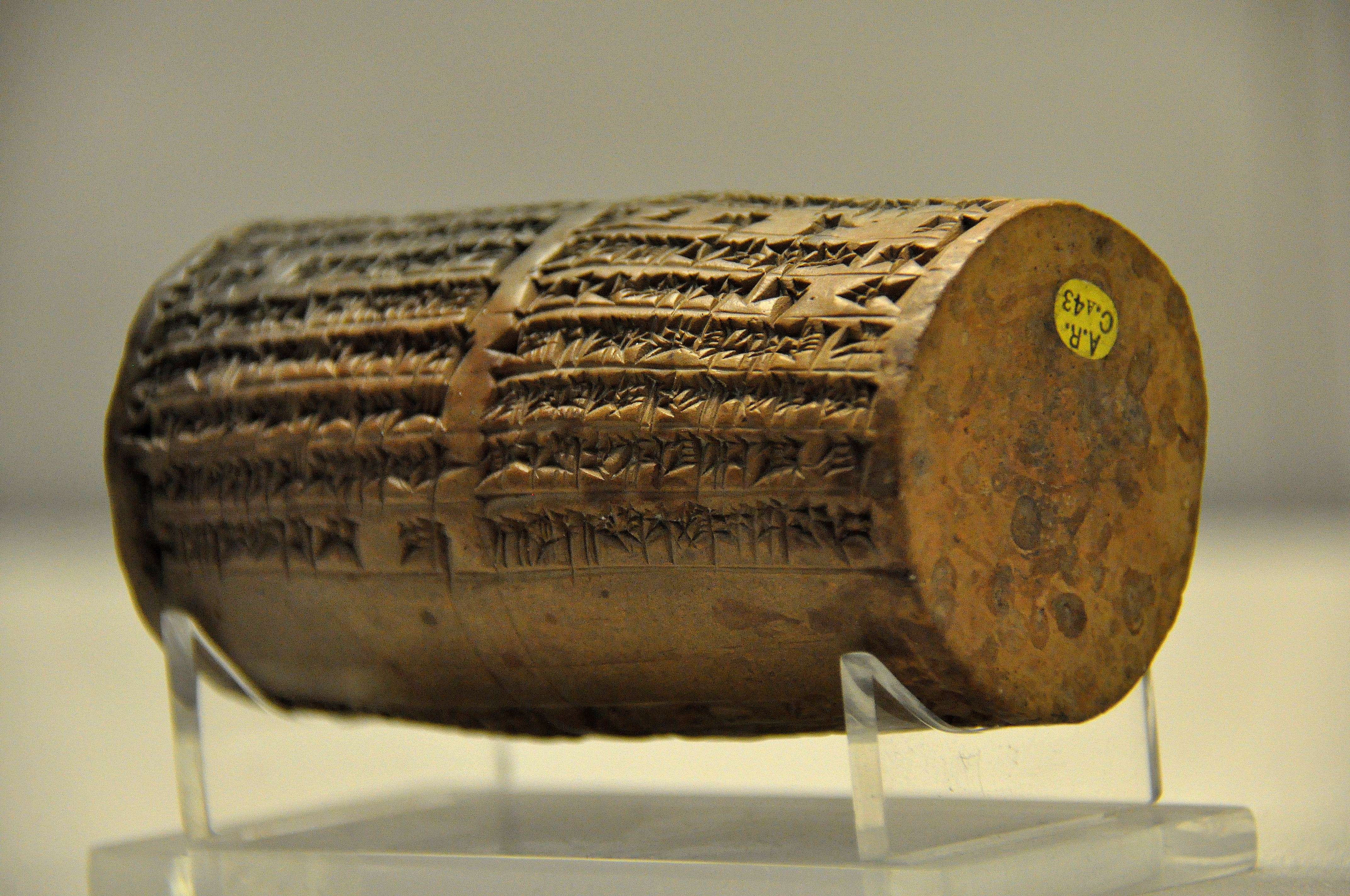 The cuneiform inscription on this clay cylinder mentions the work on the temple of God Sin at Ur by Nabonidus. It also narrates a prayer for the king and his son Beslshazzar. From Ur, southern Mesopotamia. Neo-Babylonian period, 555-539 BCE. The British Museum, London. Reference